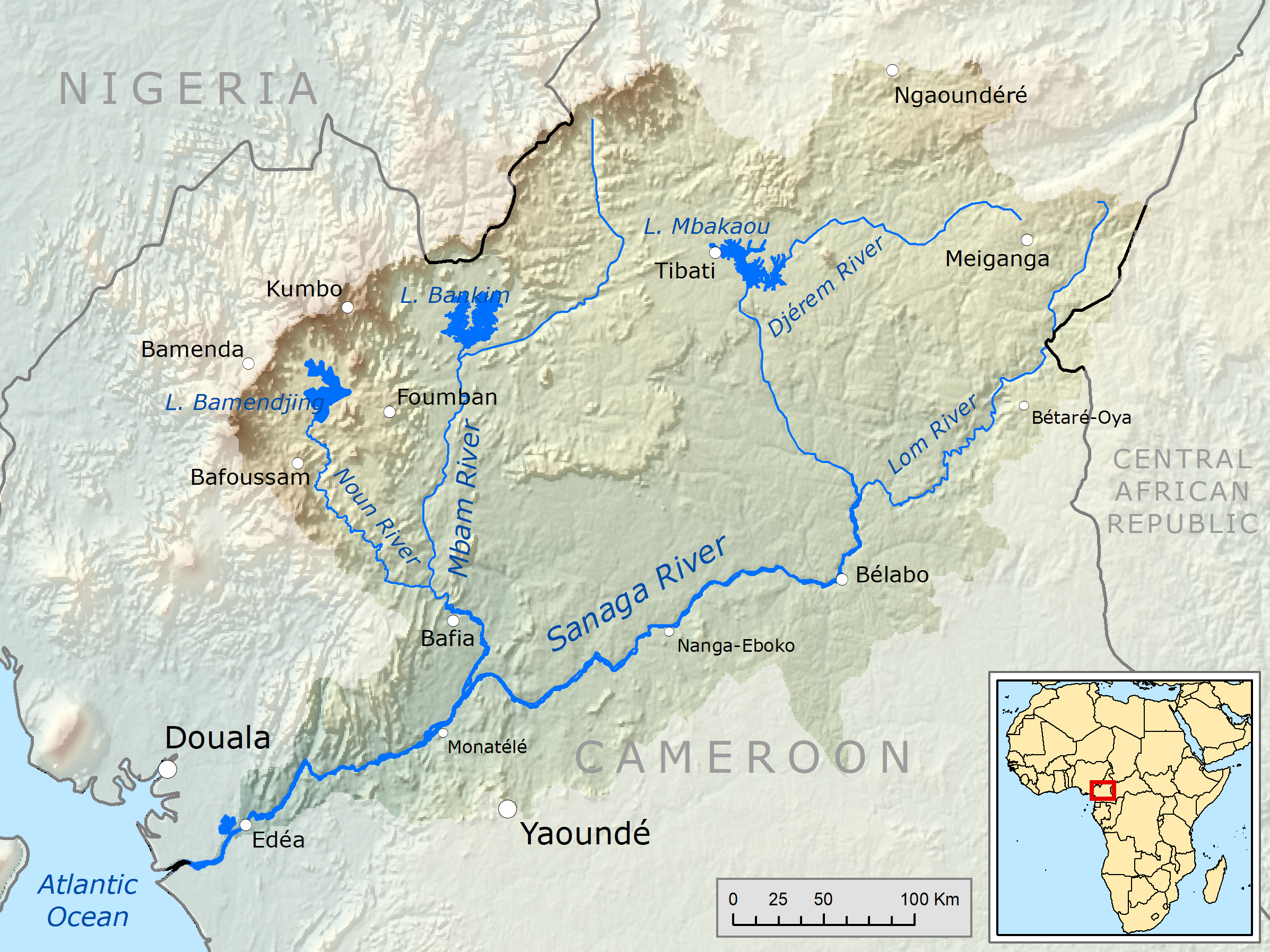 This is a map of the Sanaga River drainage basin. All data used is originally from the U.S. Geological Survey.